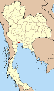 Map of Thailand highlighting Samut Sakhon province